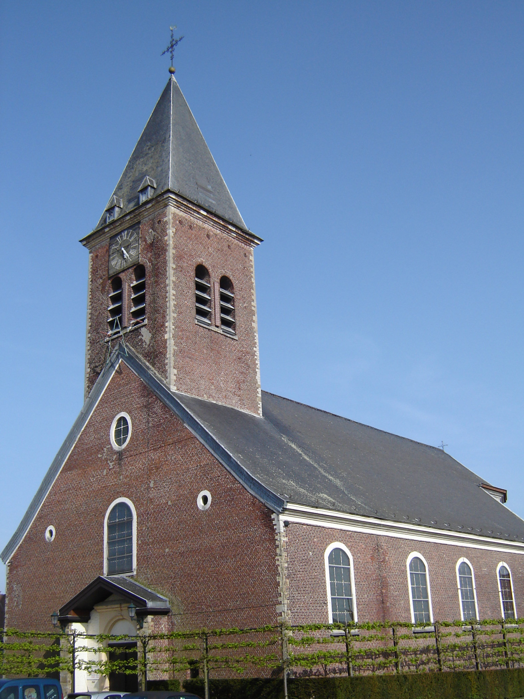 Church of Saint Amand and Saint Anne in Otegem. Otegem, Zwevegem, West Flanders, Belgium